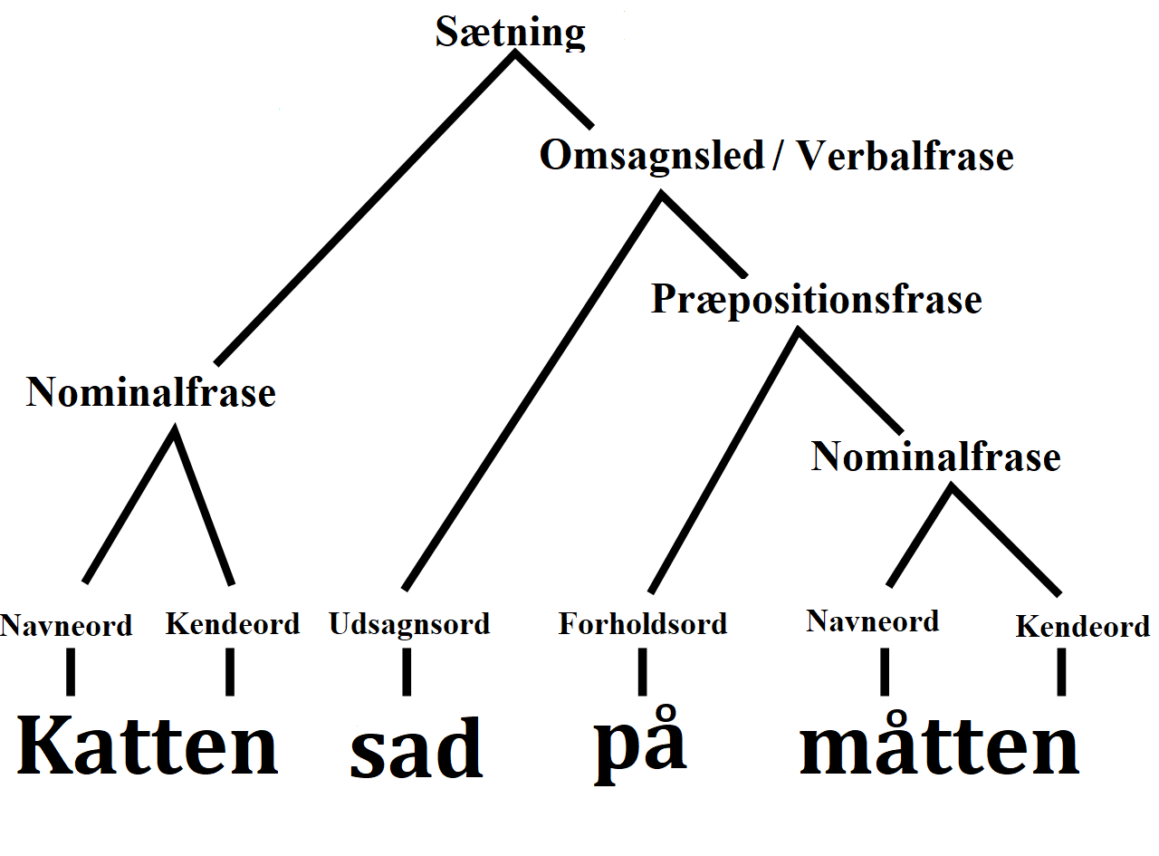 Adapted from File:Constituent structure analysis English sentence.svg